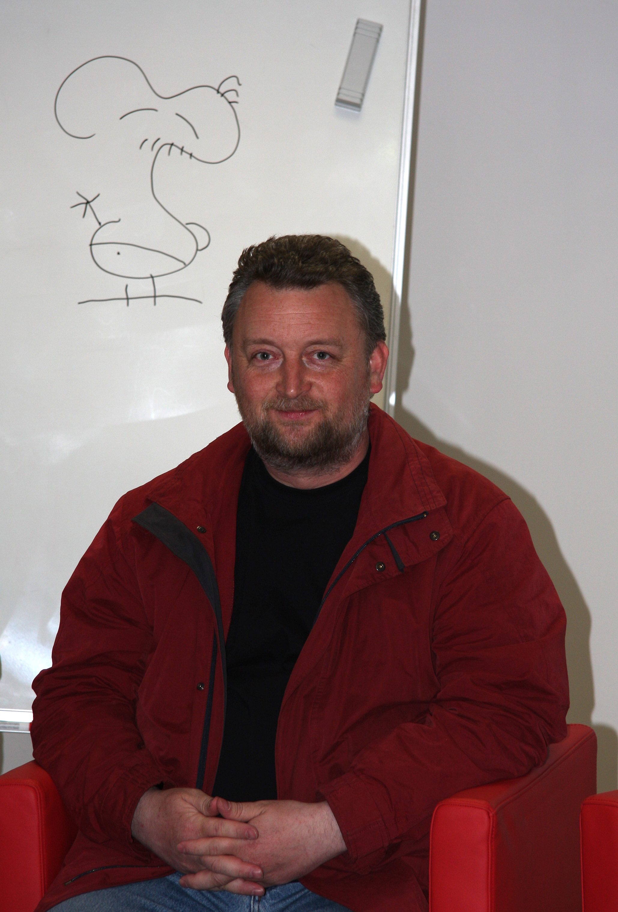 Tomaž Lavrič, a comic artist from Slovenia